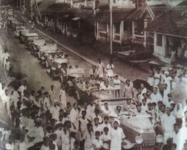 An old picture of a marriage procession going through the High Road, Thrissur City, Kerala.